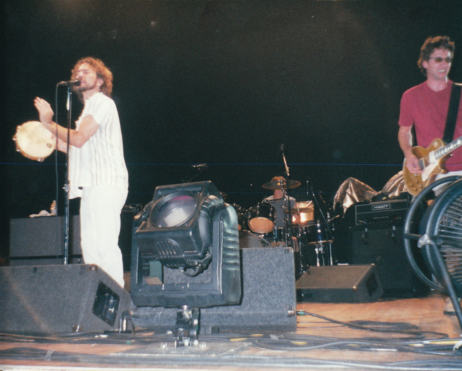 Eddie Vedder, Matt Cameron and Stone Gossard 2000